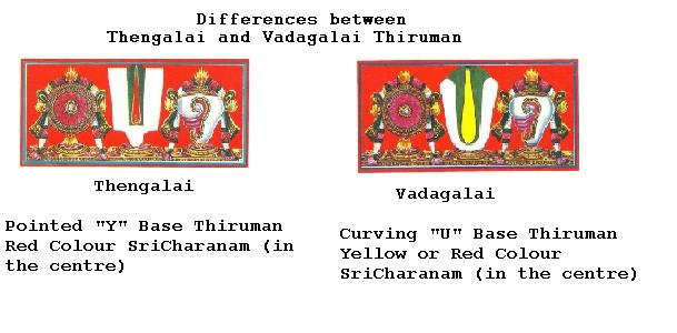 This is a pictorial depiction of Thenkalai and Vadagalai Thiruman side by side with pointers to the differences. Thiruman is the caste or religious mark adorned on the forehead by the followers of vishnu. It reprsents the feet of the lord and his wife consort lakshmi. Apart from the menfolk wearing the centre thiruman this mark is used to brand the temples and places of worship. There are two subsects called Thenkalai (Southerners) Vadagalai (Northerners).